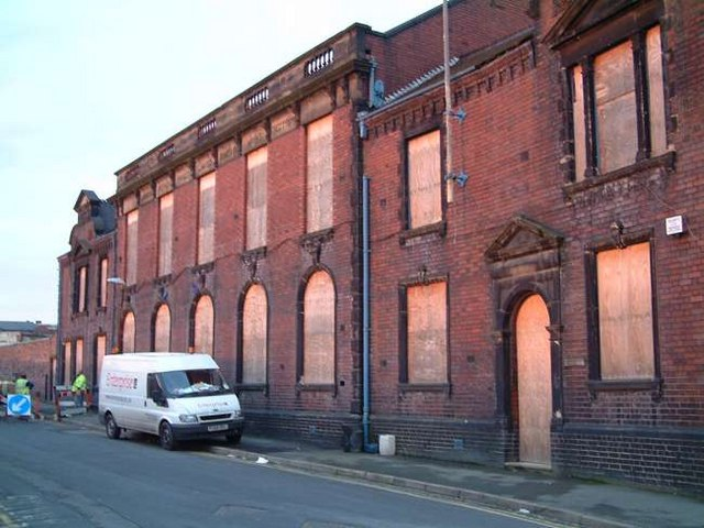 Johnson Brothers Sanitary Ware Factory On Eastwood Road, Hanley - the inscription on the top reads "Johnson Brothers (Hanley) Ltd Sanitary Works Erected 1896" - this factory was called the Trent Works. The pottery behind has been demolished for housing - the offices shown in the photo have been retained to be incorporated in the development. See photo of the demolition:- See more on Johnson Brothers